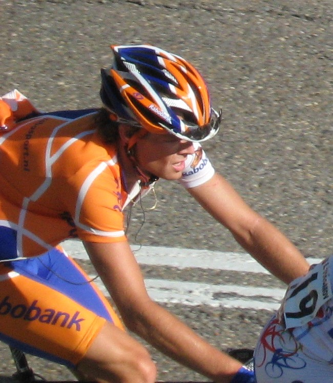 Theo Eltink, 2008 Vuelta a España, 8th stage, Port de la Bonaigua, Spain.